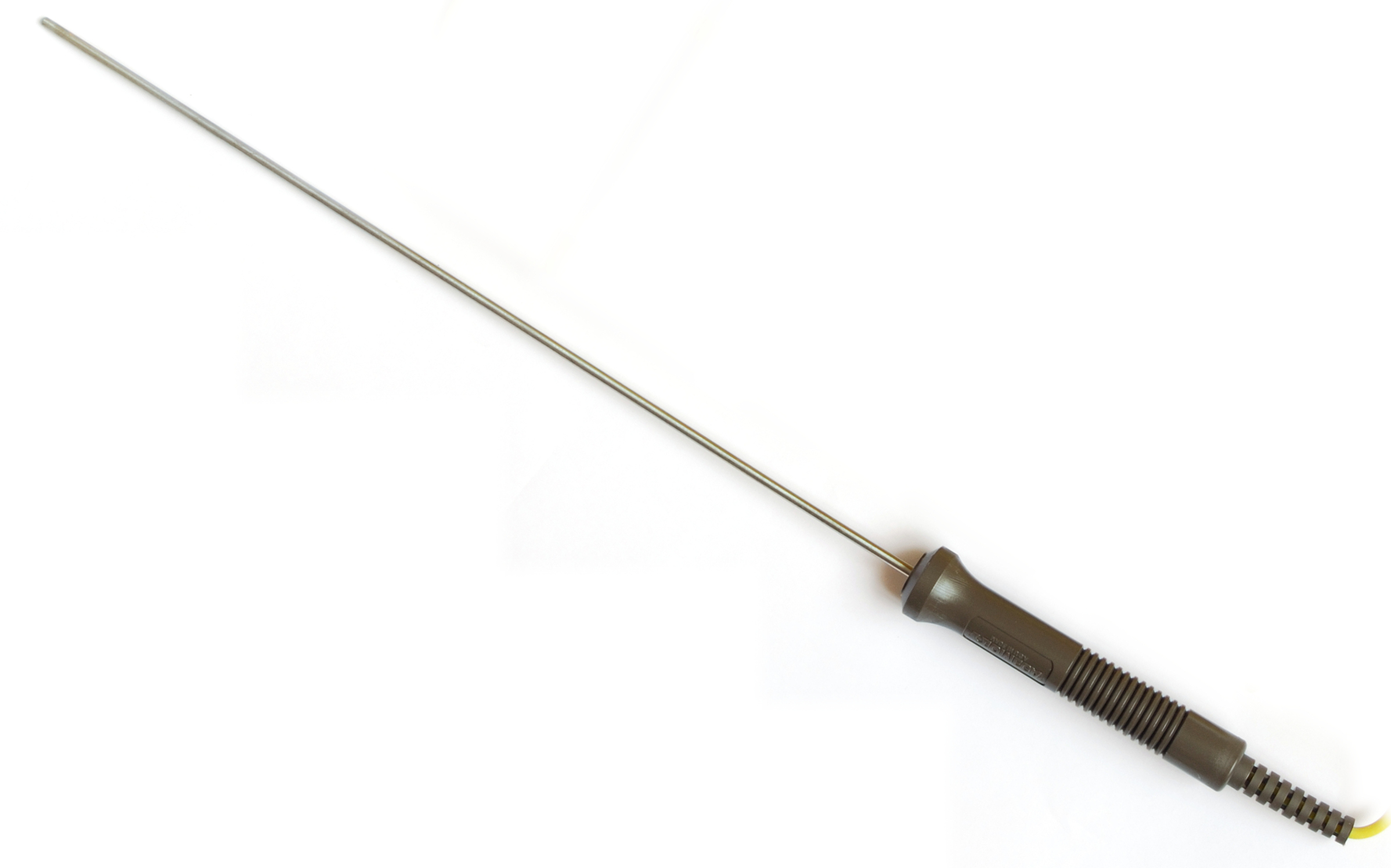 Type K thermocouple probe.